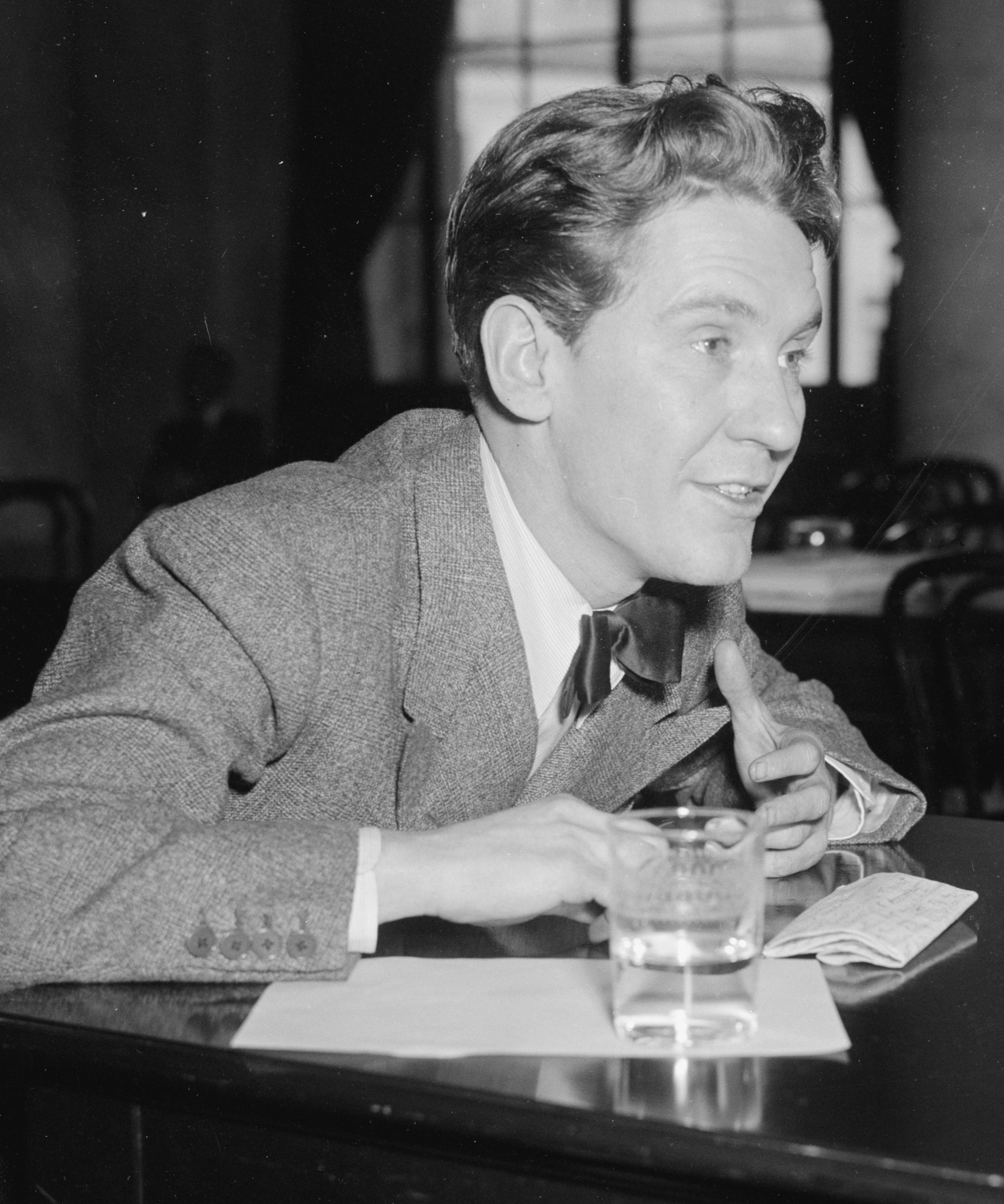 Burgess Meredith urging for a permanent Federal Bureau of Fine Arts in Washington, D.C. on February 28, 1938. A militant campaign will shortly be waged for creation of a permanent Federal Bureau of Fine Arts, Meredith, acting President of Actors Equity, today told the Senate Education and Labor Subcommittee. Actors, producers, and artists have urged the committee to aid the "preservation and development of American Culture" by reporting favorably to create such a bureau.